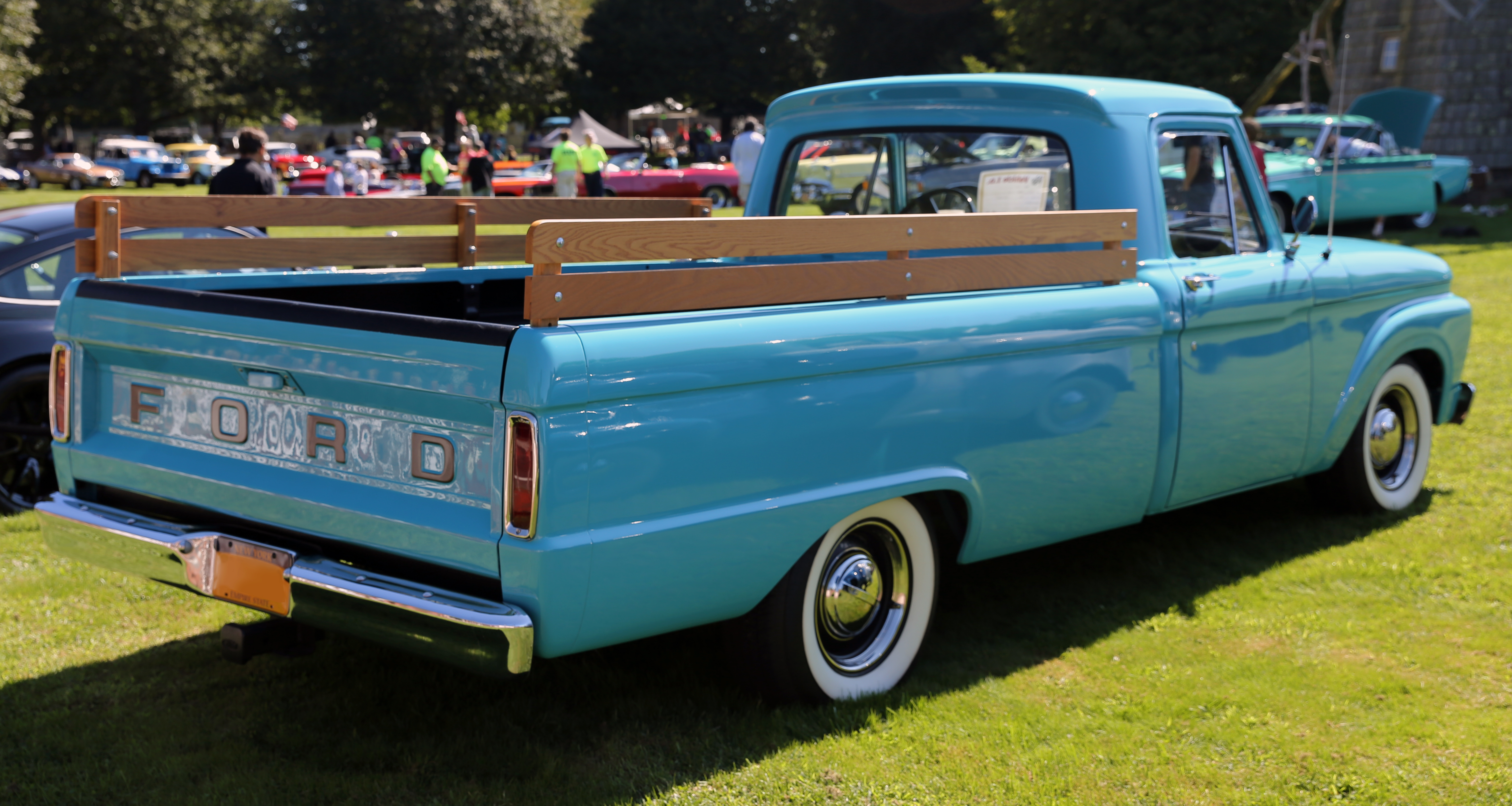 Rear view of a 1966 Ford F-100 pickup truck at a show in Water Mill, NY. A two-wheel drive version with the 300ci, 150hp inline-six, assembled in Norfolk, VA.